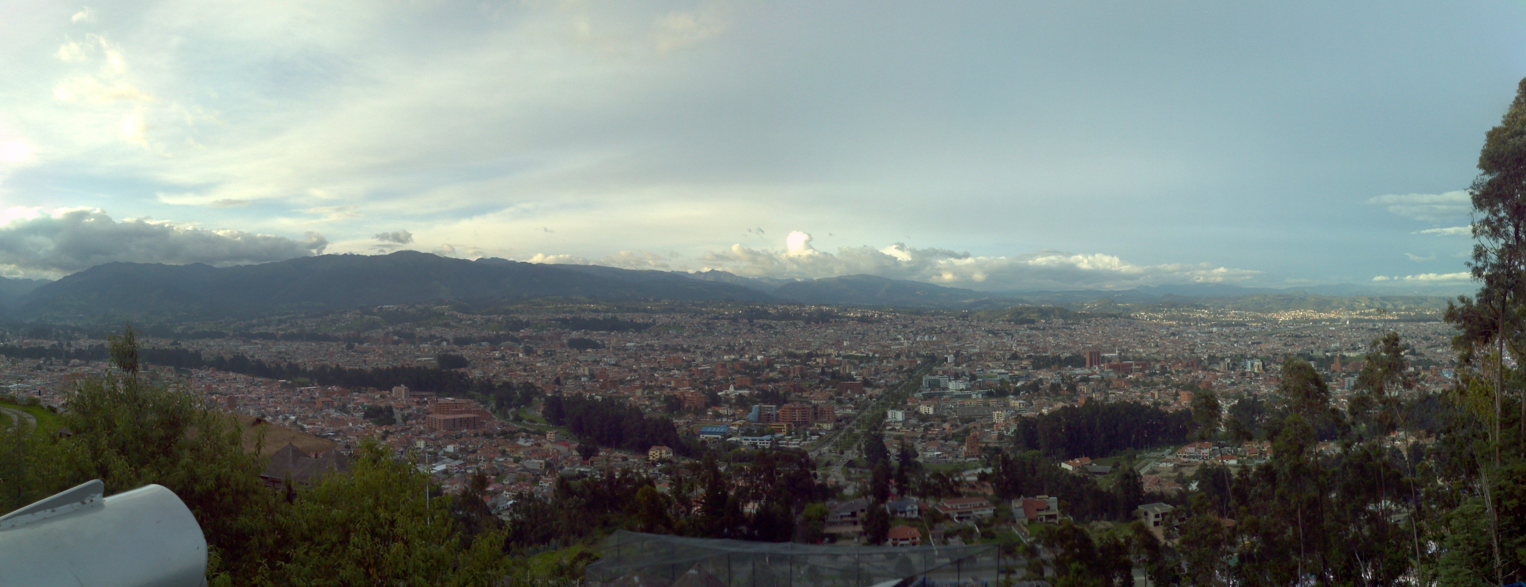 Panoramic view of the city of Cuenca, Ecuador from the viewpoint of Turi.